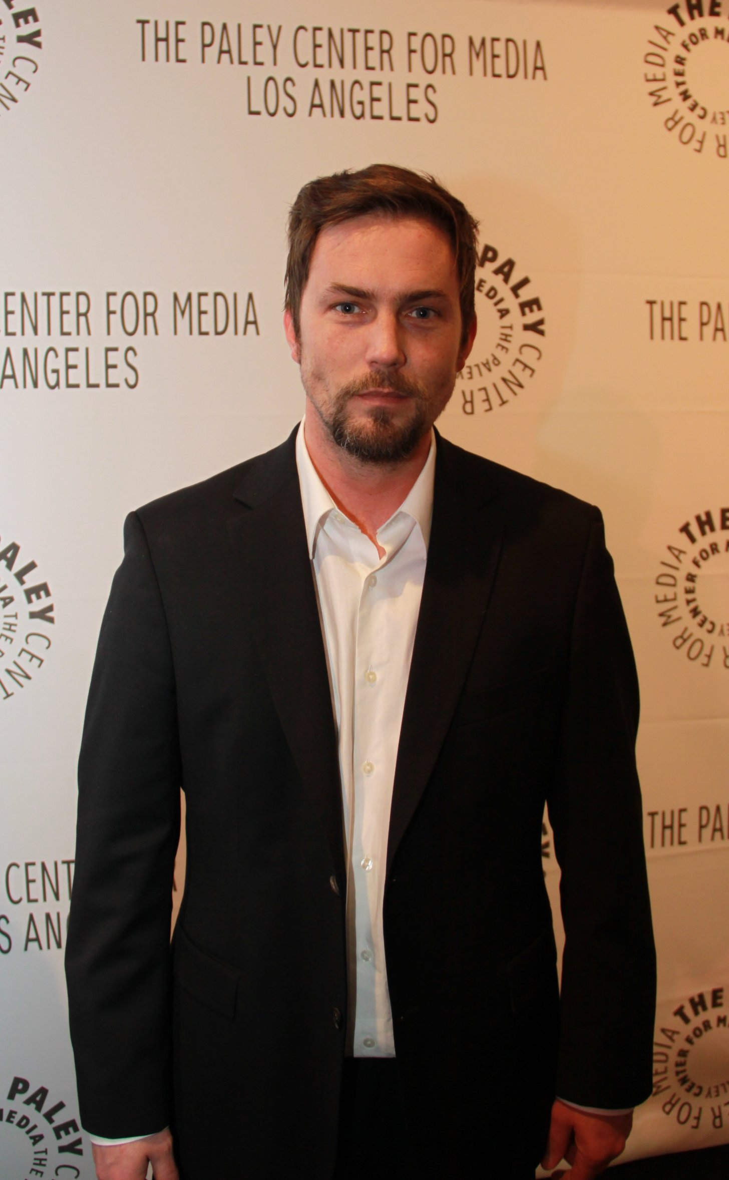 Desmond Harrington at PaleyFest2010's "Dexter" night at the Saban Theatre on March 4th, 2010.